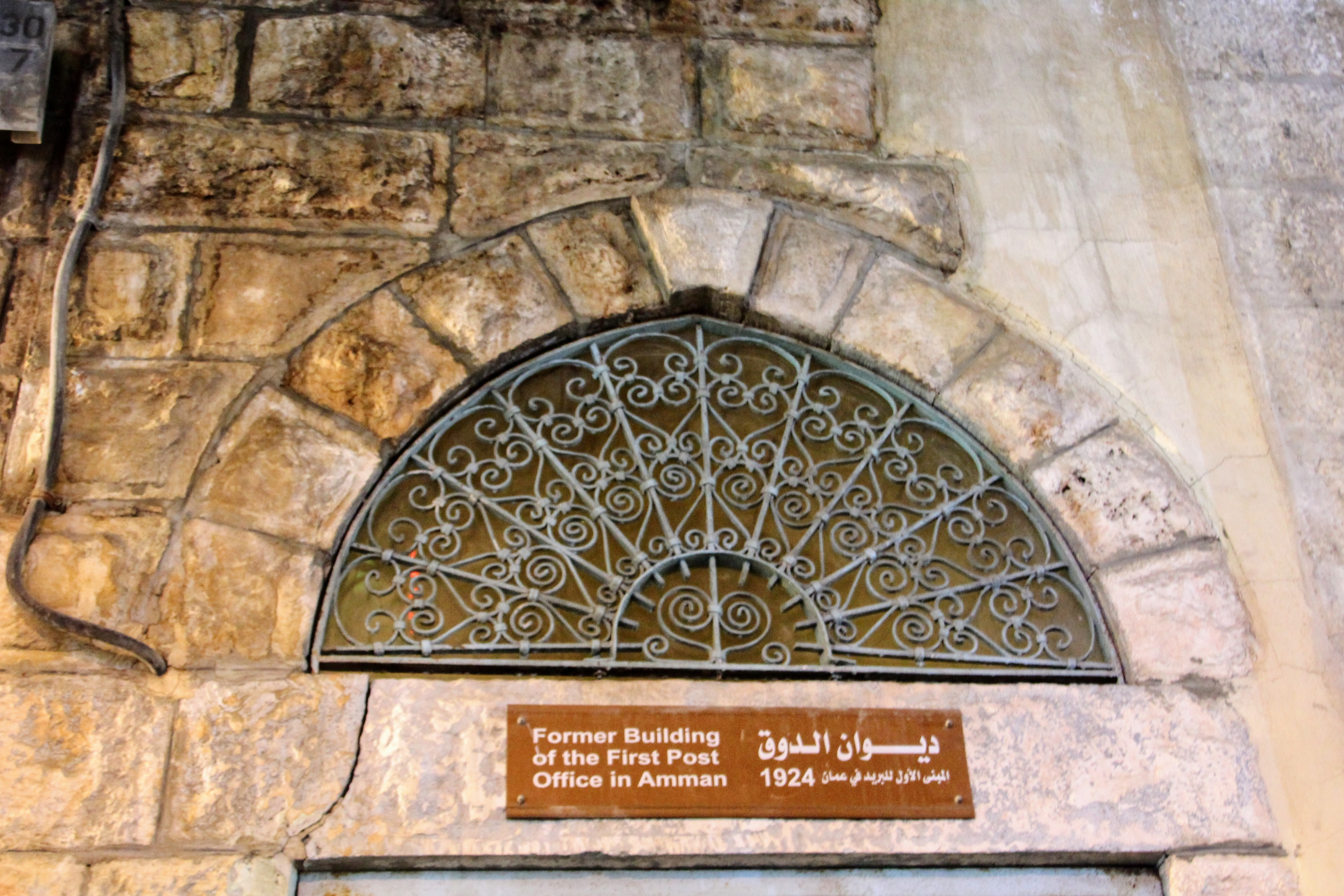 "Lunette" above the door of the building recently named "Diwan al-Duq" (Duke's Diwan), which housed the first ever post office in Amman, Jordan